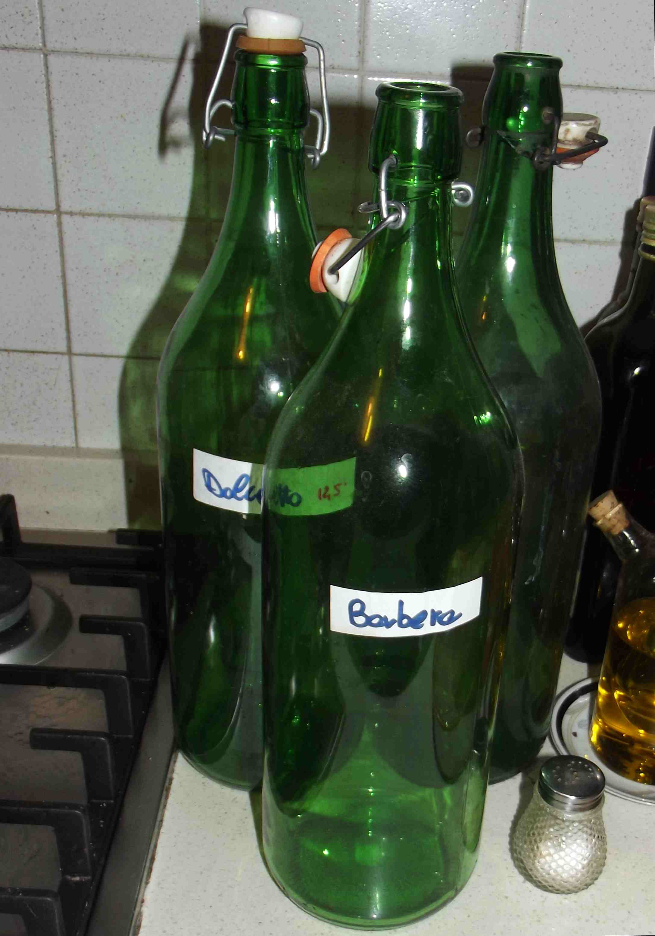 Bottiglioni (2 litres traditional italian bottles) in a kitchen